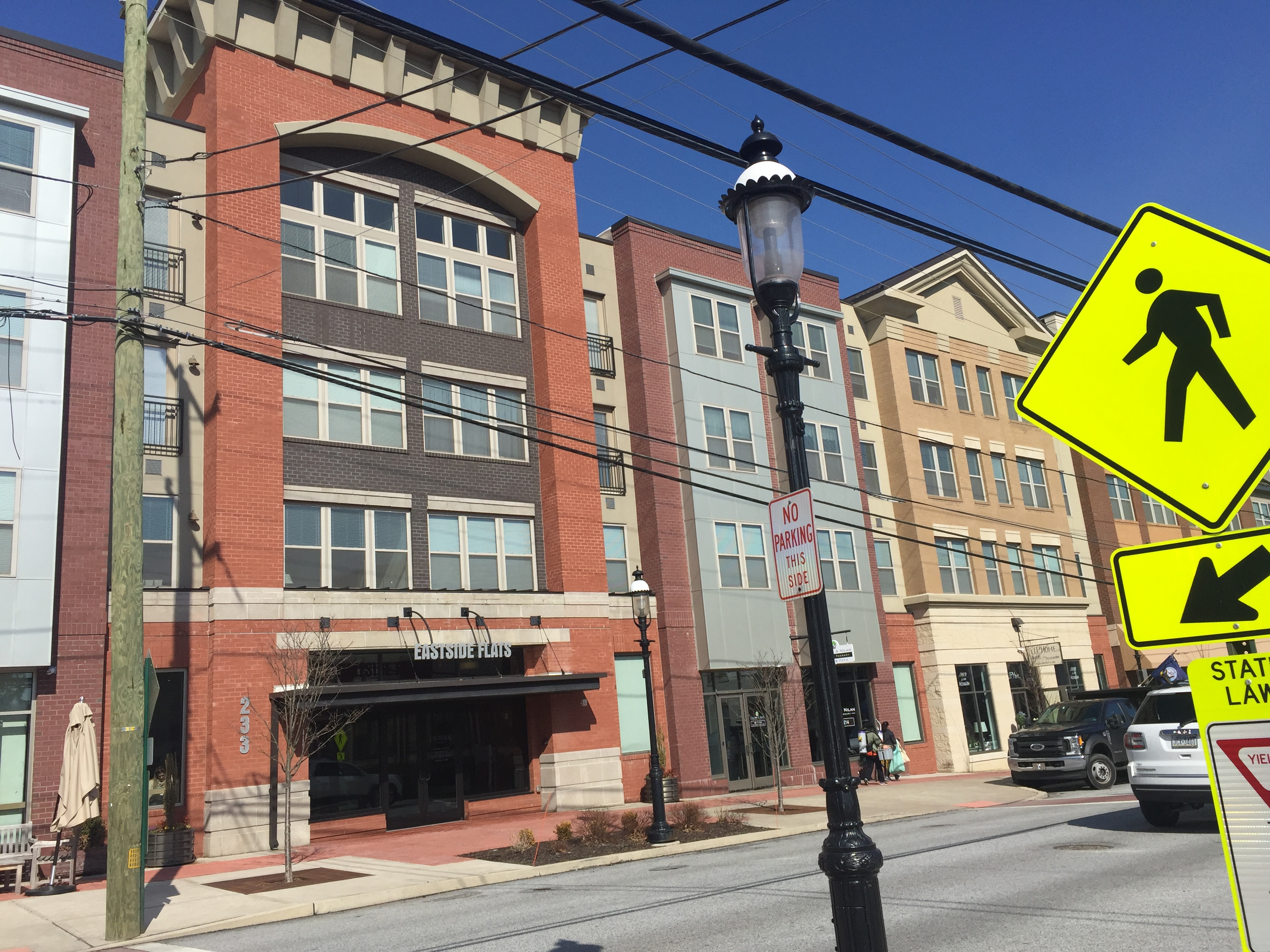 East side